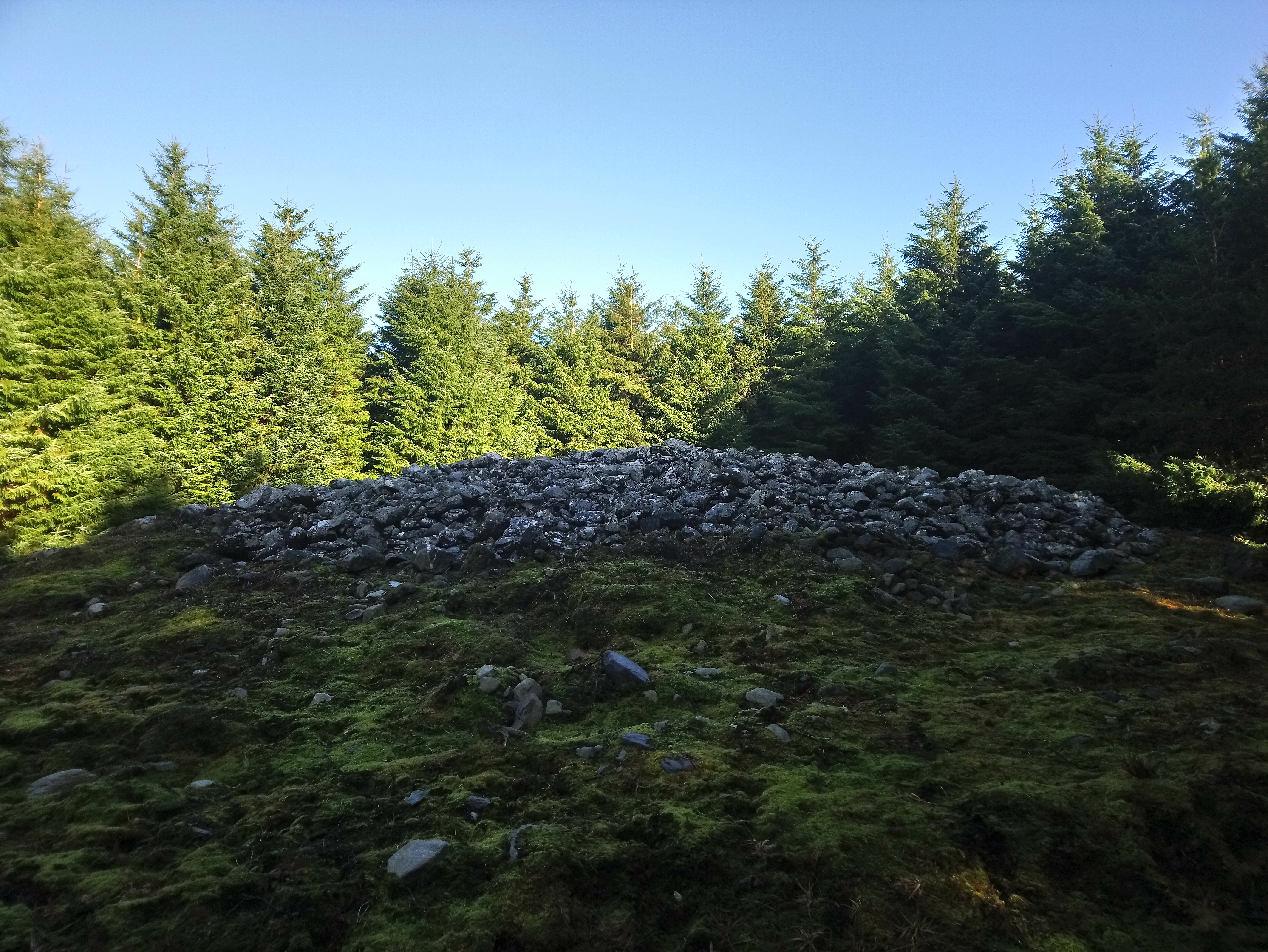 The western side of the Skeagh Cairn near Skibbereen, Co. Cork, Ireland.